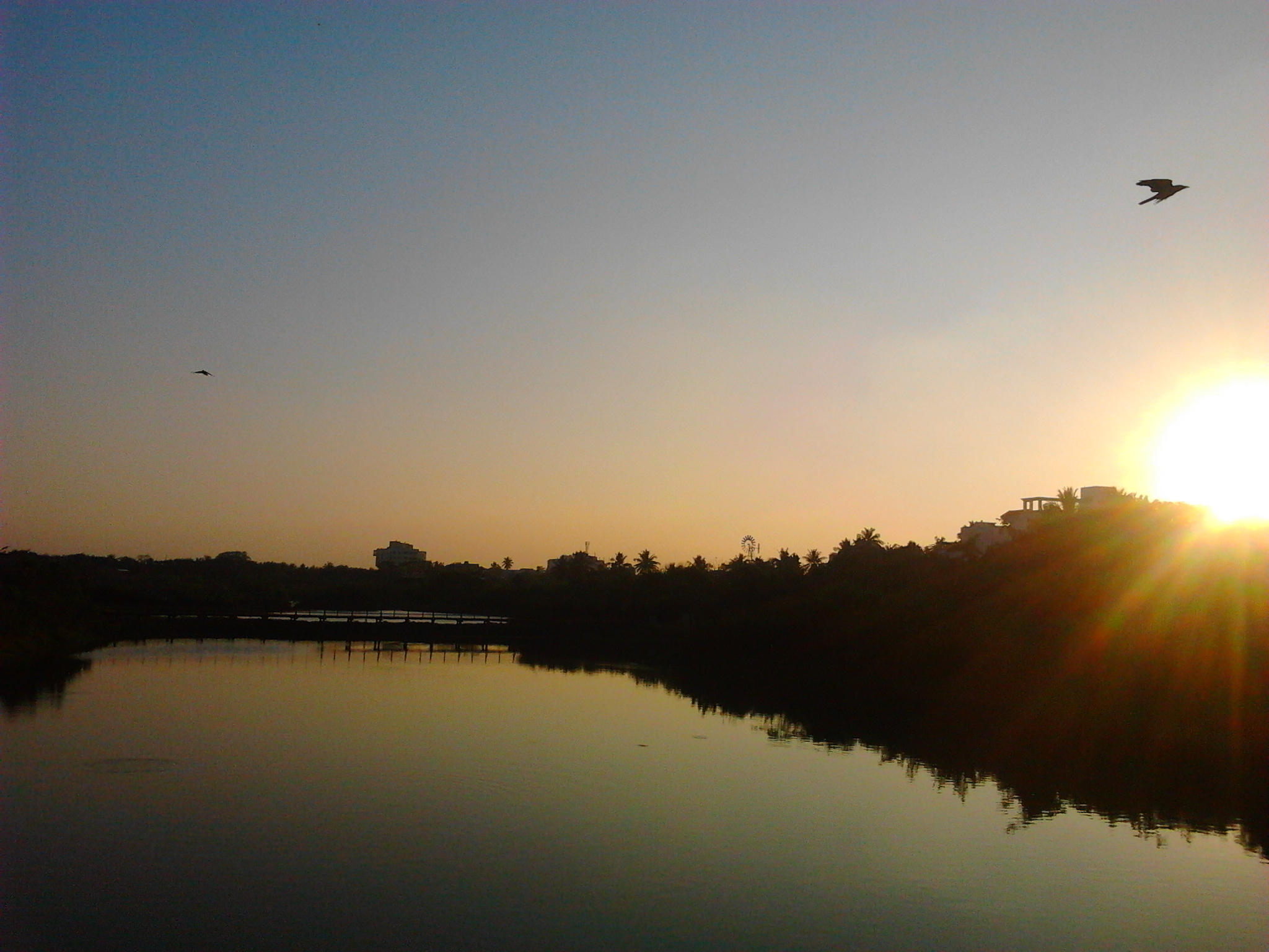 Photoed using Samsung Wave 525.